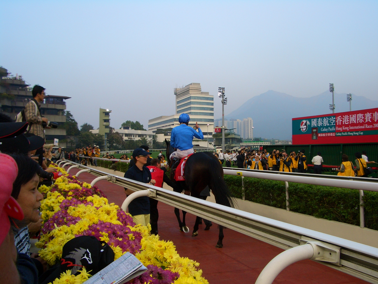 Ramonti, winner of 2007 Hong Kong Cup